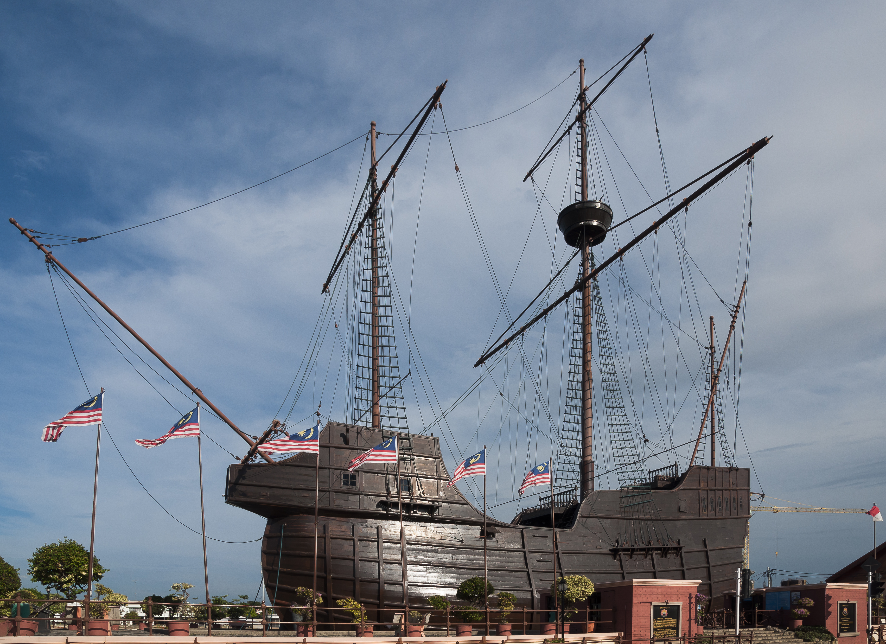 Malacca City, Malaysia: Flor de la mar, Replica of Portuguese ship, built in 1994